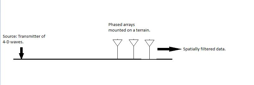 Spatial distribution of phased array